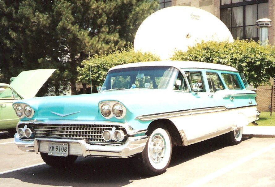 1958 Chevrolet Brookwood photographed by myself in Dearborn, Michigan in June 2001.